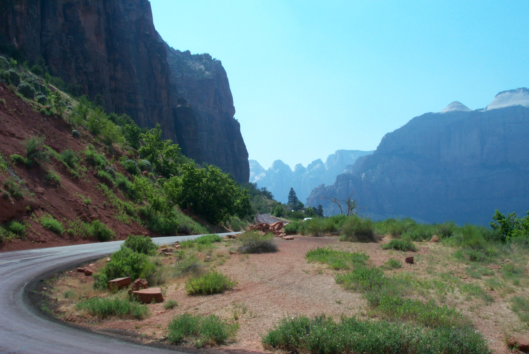 Zion-Mount Carmel Highway = Utah State Route 9 inside Zion National Park. The 25-mile road including an 1.1-mile tunnel was a engineering record when it was build from 1927 to 1930. It is listed in the National Register of Historic Places and became designated as a Historic Civil Engineering Landmark by the American Society of Civil Engineers in 2012.